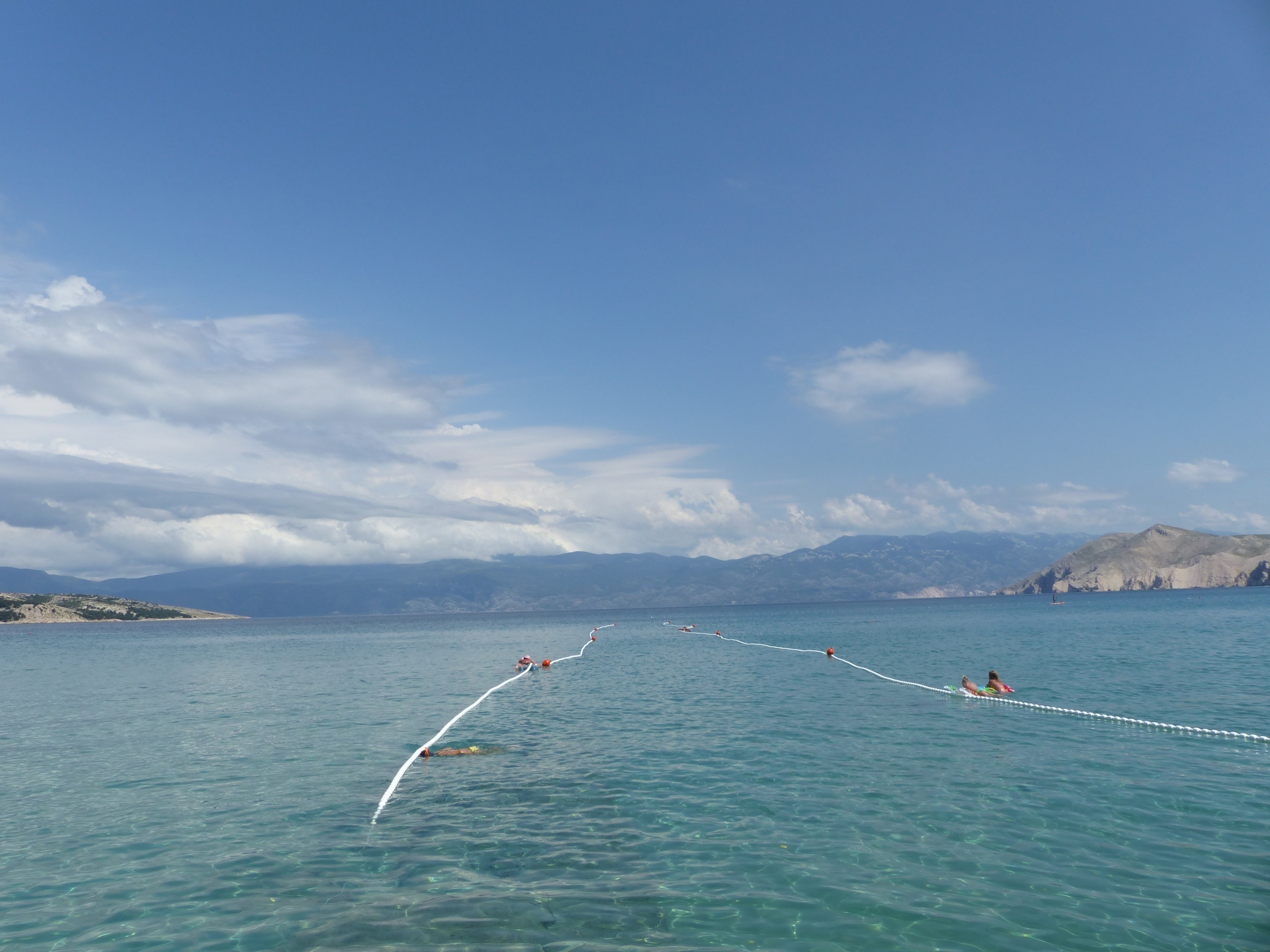 Baška - On the Beach. Taken on th 27th of 2016. Baška, Krk island, Croatia.